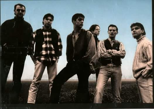 The Mex Mark III